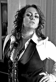 Picture of Diamá (aka Claudia D'Addio)